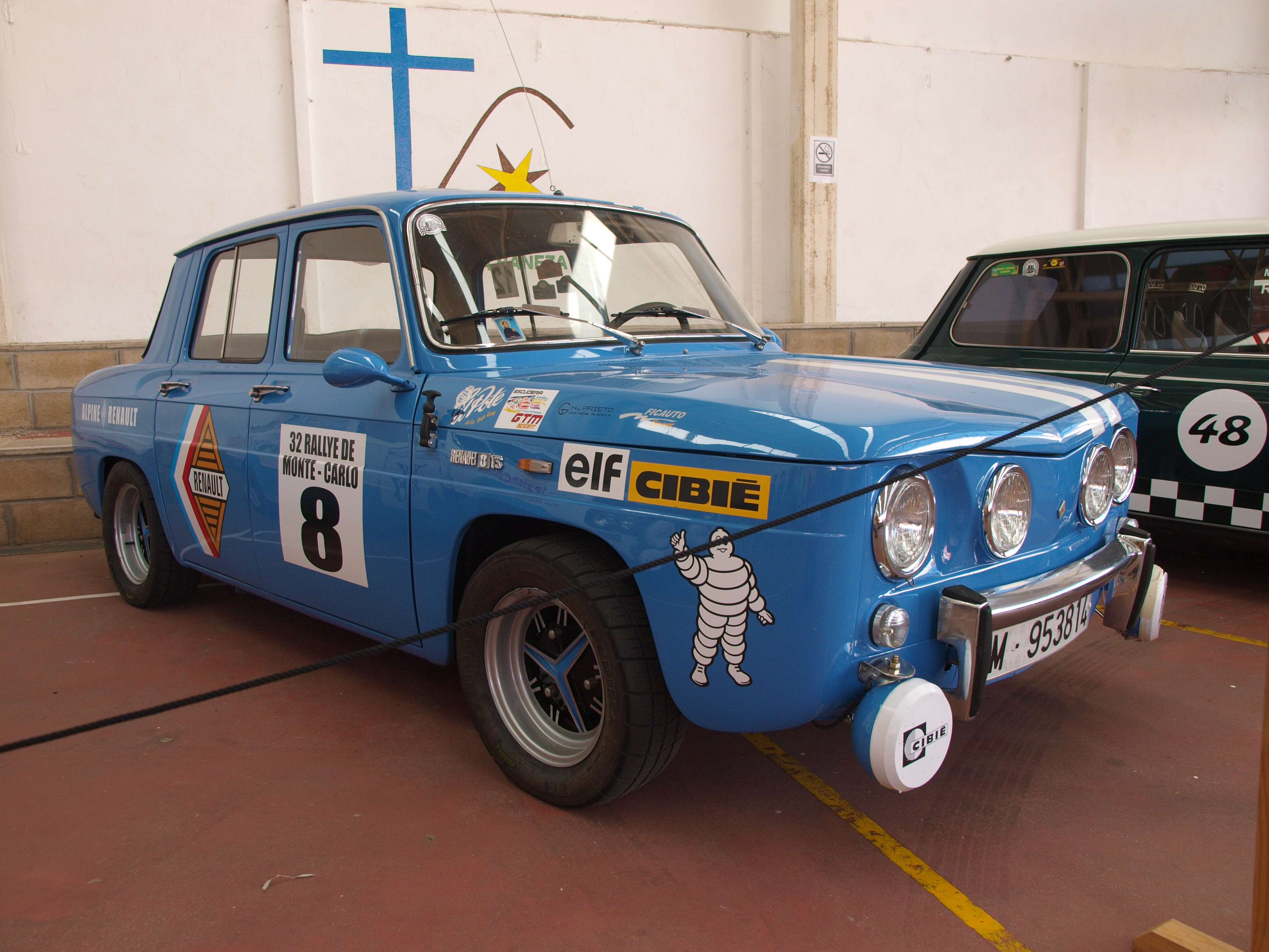 Spanish built Renault 8 TS (year 1971) at exhibition in La Bañeza (Spain), August 2012